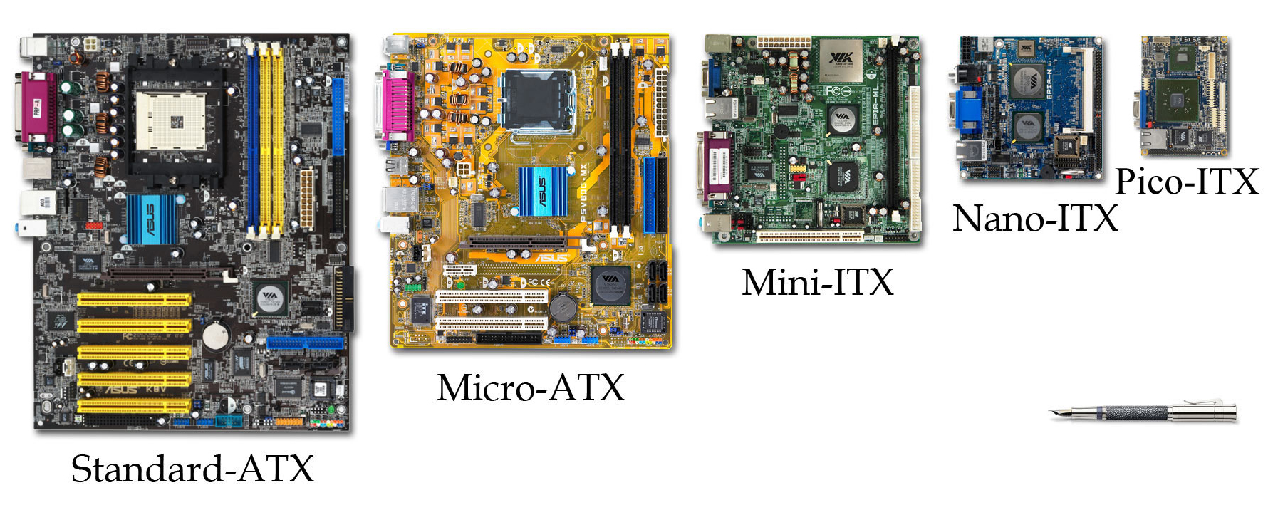 Comparison of (personal) computer motherboard form factors